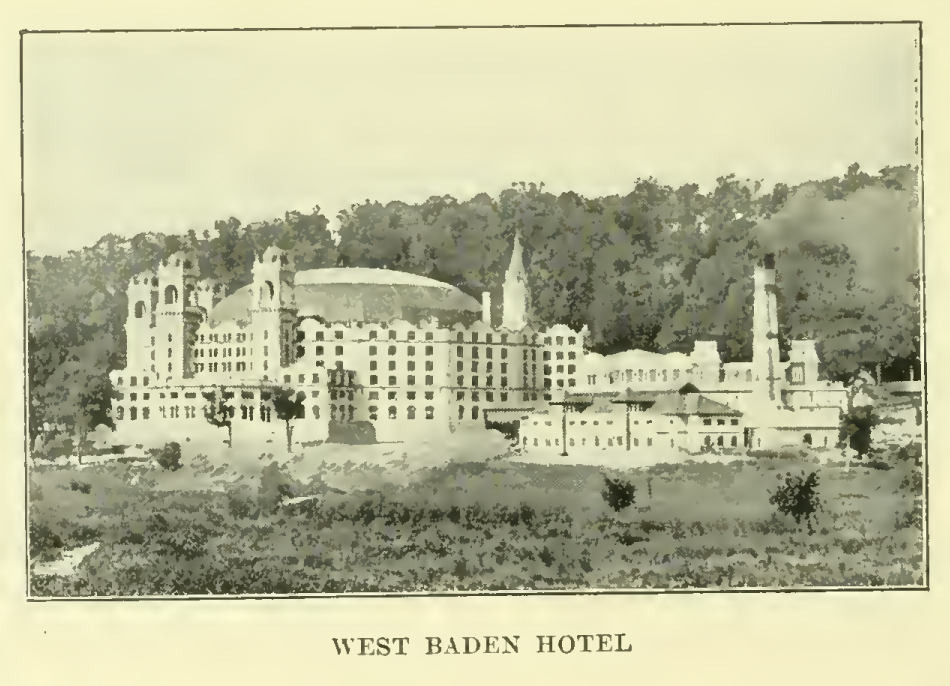 Photograph of West Baden Springs Hotel in West Baden Springs, Indiana, that appeared in Baltimore & Ohio Railroad Company's Book of the Royal Blue, April 1909, Vol. 12 No. 07, Page 22